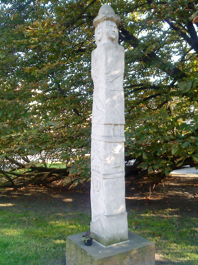 Replica of Swiatowid from Zbrucz in Cracow